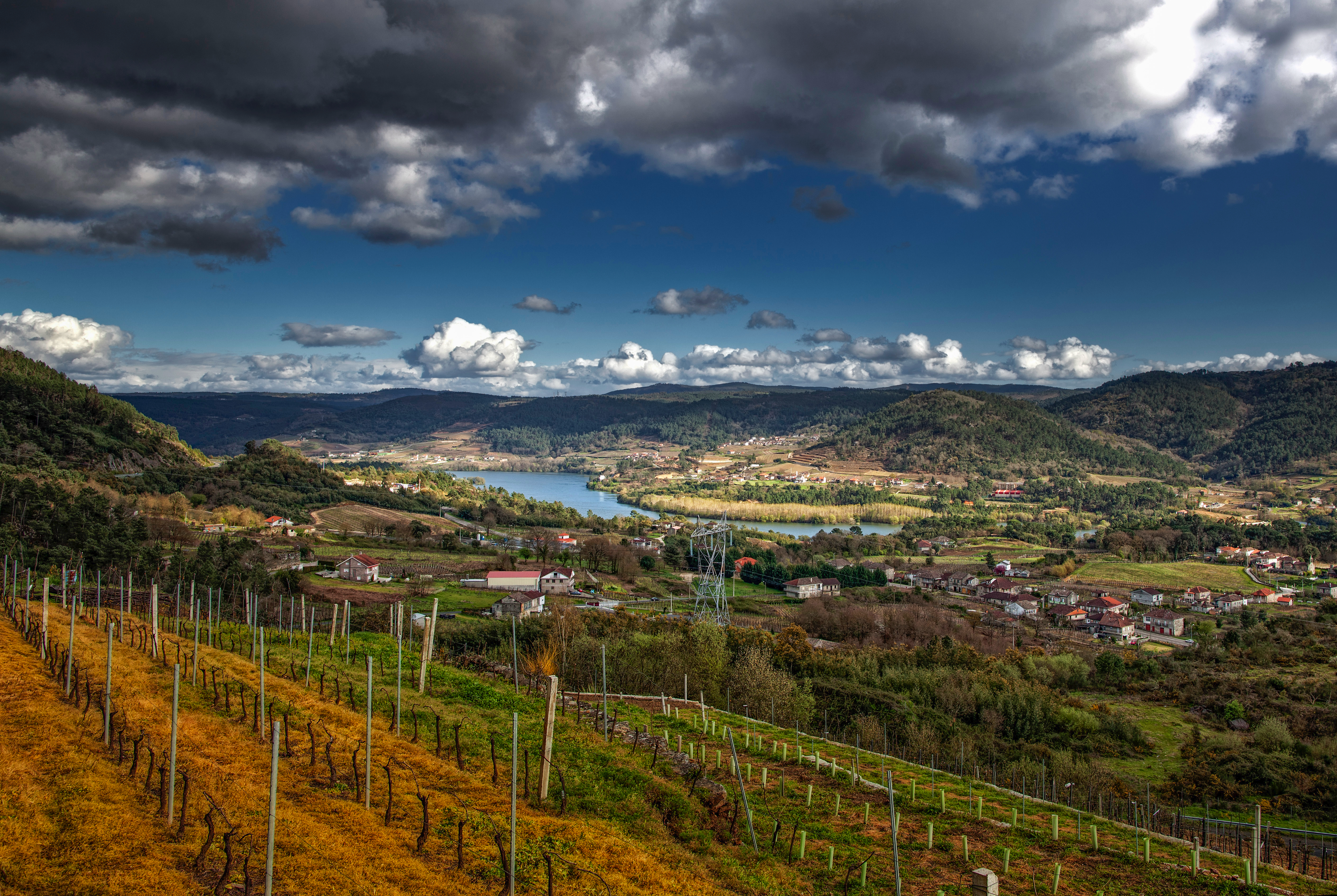 Vineyards in the Ribeira Sacra DO of the northwest Spain wine region of Galicia. Río Miño desde Louredo, Cortegada